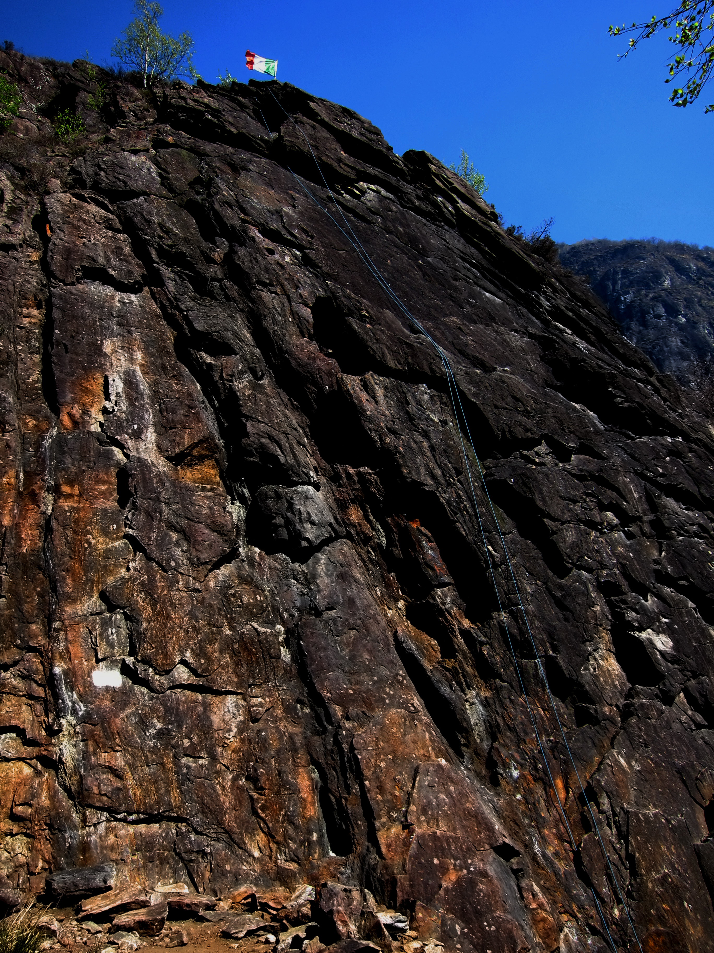 Climbing area, called 'La Panoramica' on mountain cliff near village Nibbio of municipality Mergozzo in Province Verbanio Cusio Ossola , in region Piedmont in Italy. Picture taken on the 30th of March 2019. 2019-03-30